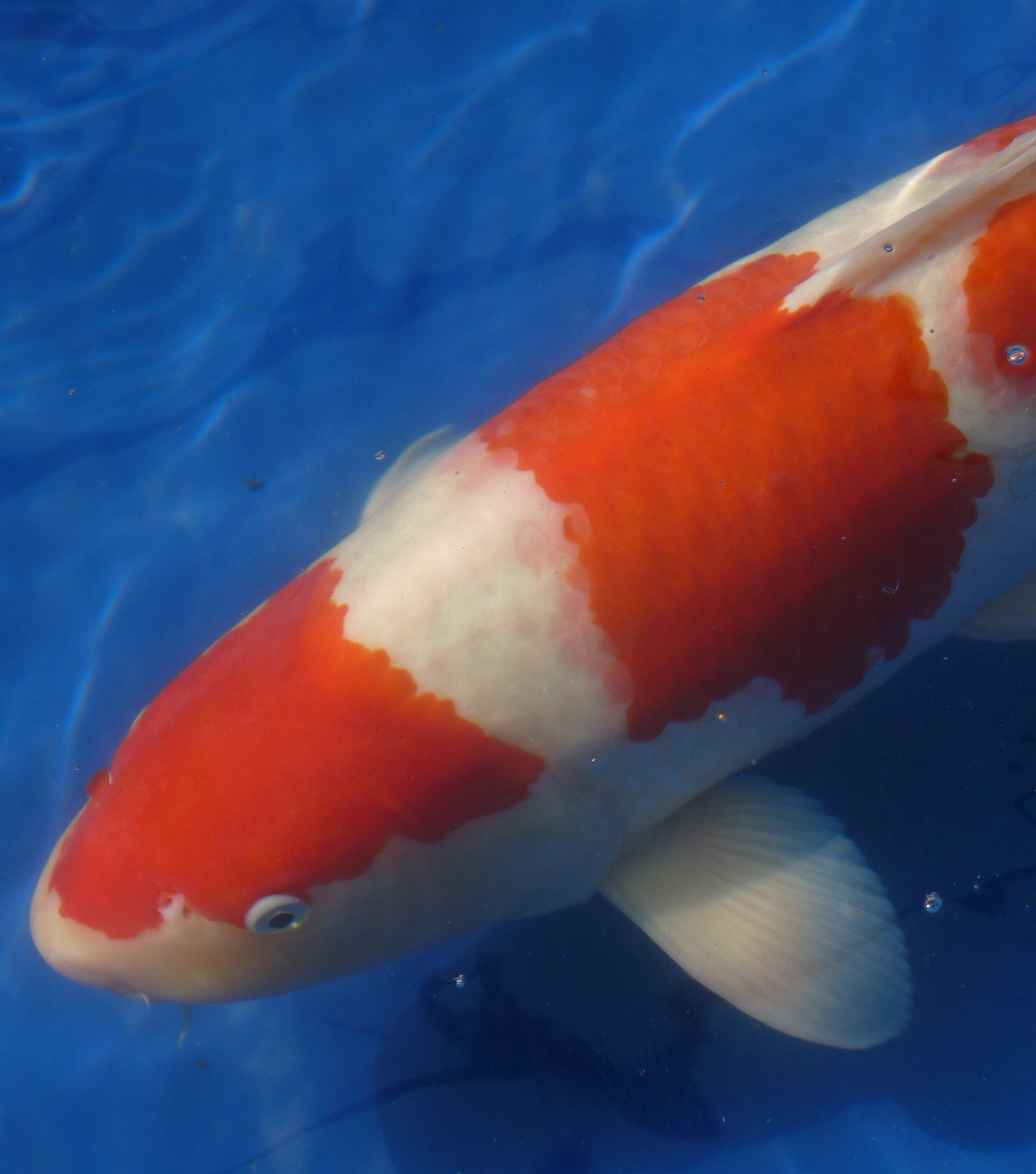 Kohaku (Koi)